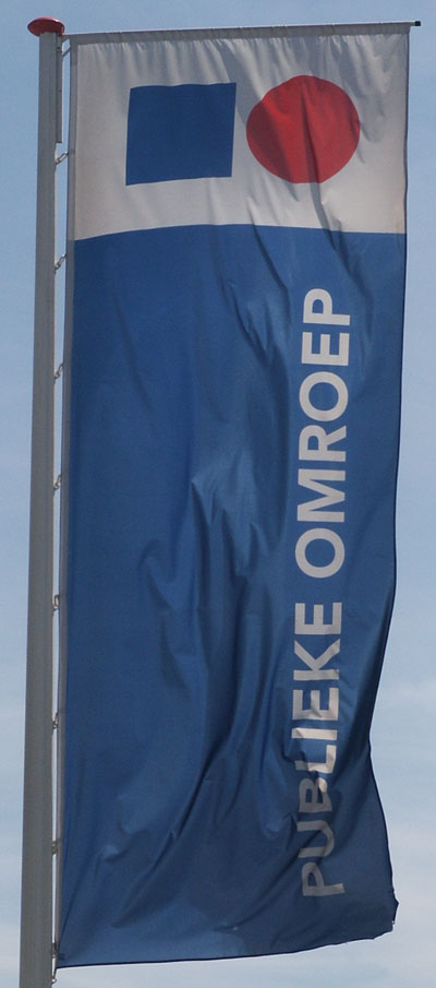 Information/Informationen Description/Beschreibung: Flag of the Publieke Omroep; Flagge der Publieke Omroep Authors/Autoren: Mardonios, (Jcg2006) Date of Creating/Aufnahmedatum: July 15, 2006; 15. Juli 2006 Source/Quelle: (Date of Editing/Bearbeitungsdatum: October 31, 2006; 31. Oktober 2006)